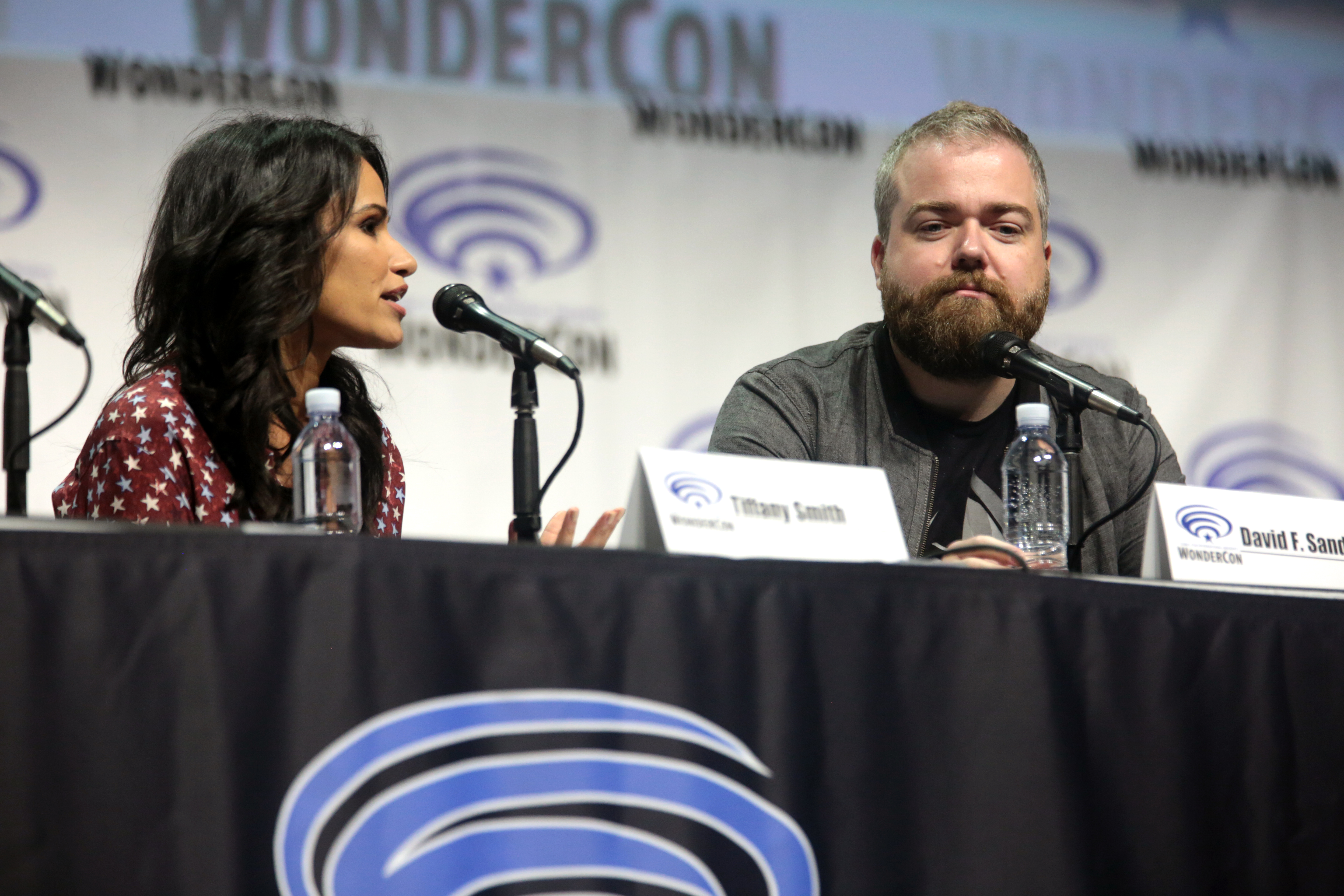 Tiffany Smith and David F. Sandberg speaking at the 2017 WonderCon, for "Annabelle: Creation", at the Anaheim Convention Center in Anaheim, California.